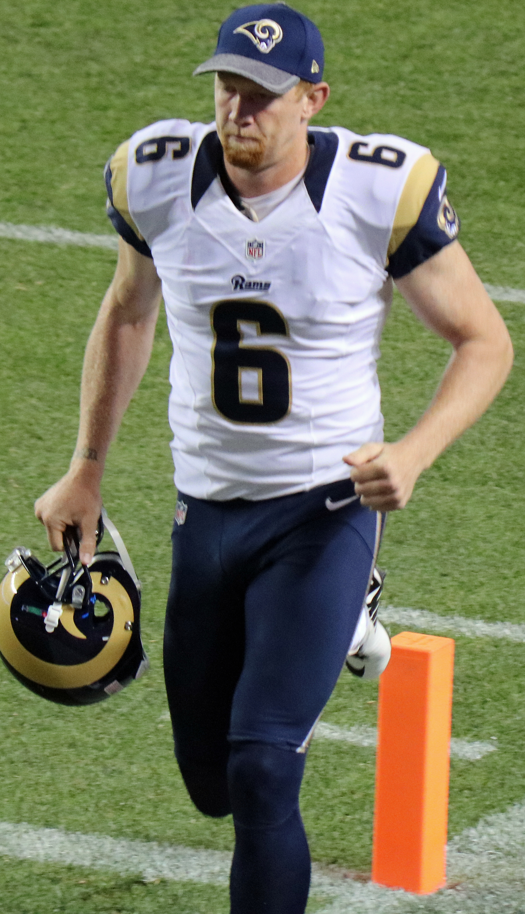 Johnny Hekker, a player on the National Football League.